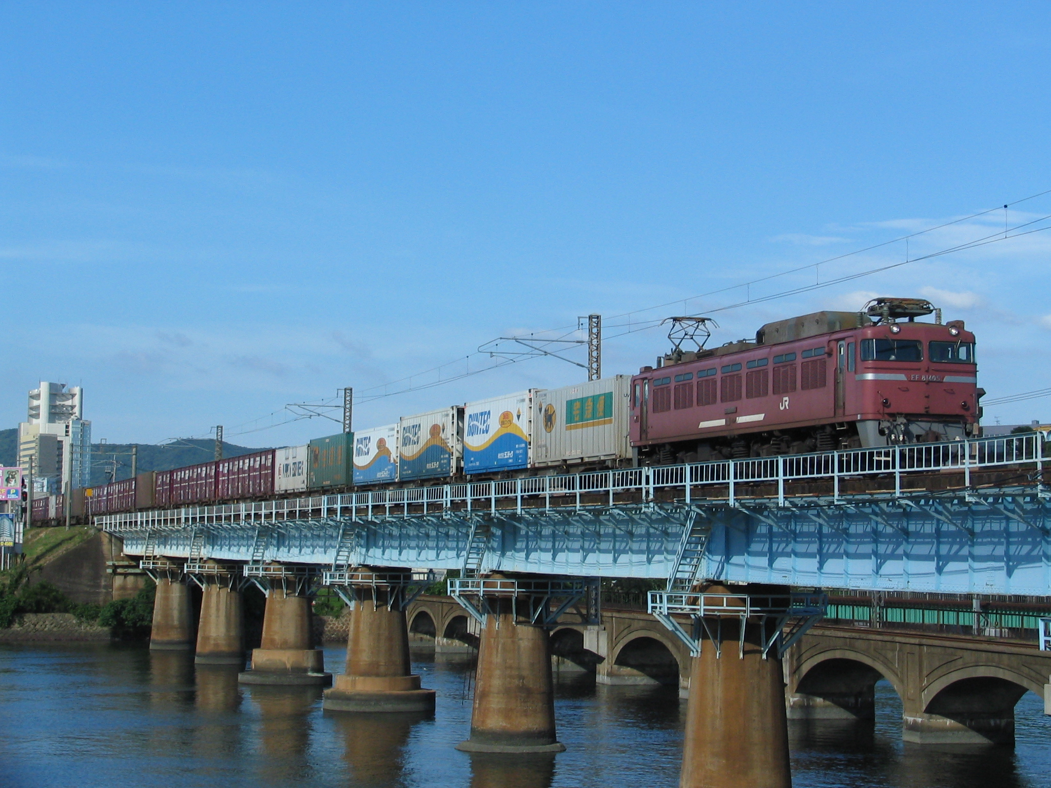 A JR Freight train hauled by JR Freight Class EF81-400 electric locomotive EF81-405